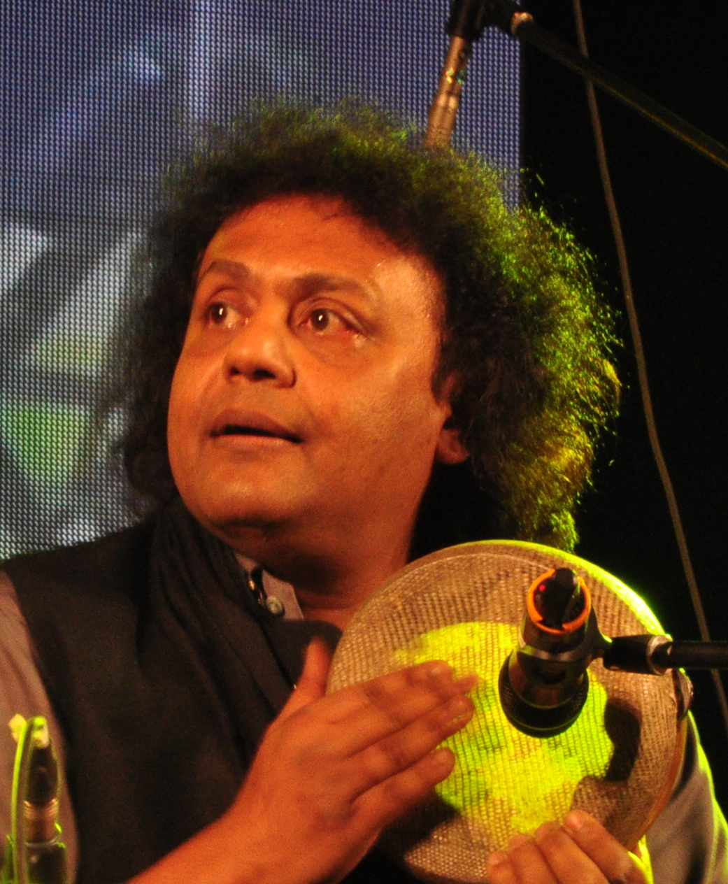 Pt.Tanmoy Bose during his recent performance at Kolkata Fusion Fiesta 2013